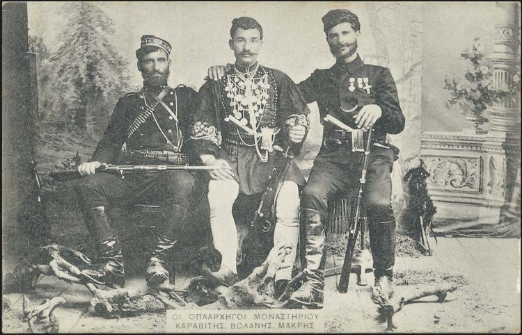 Karavitis, Volanis and Makris